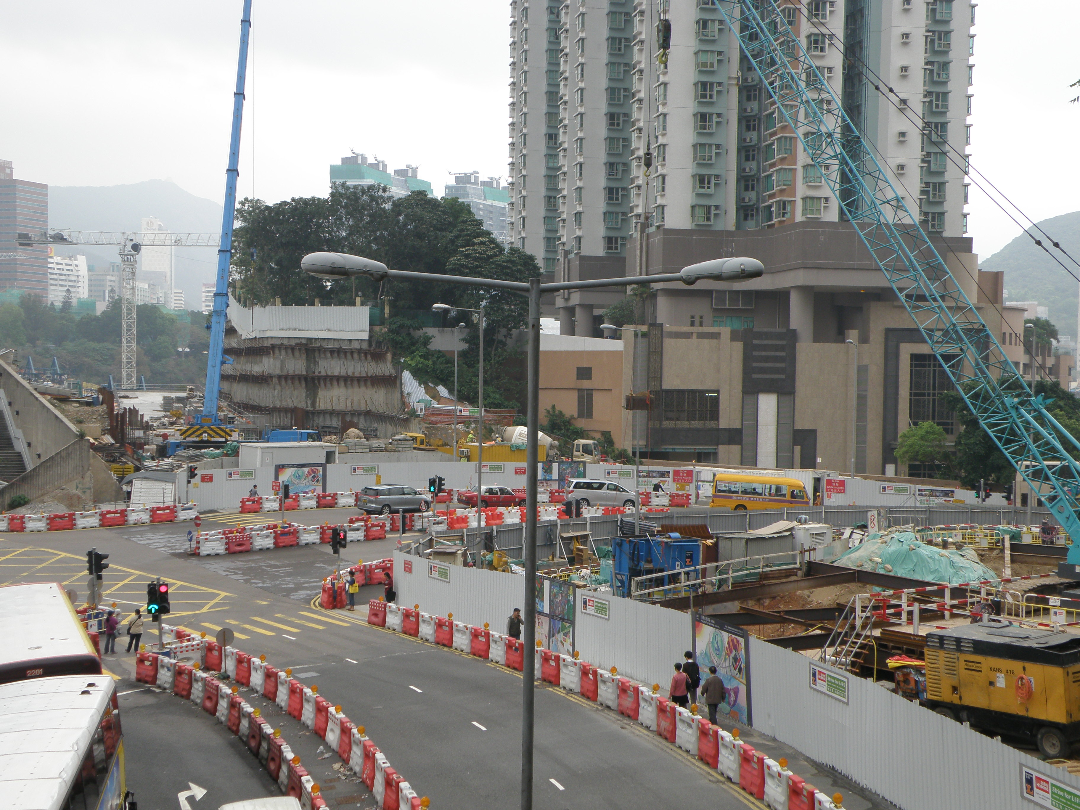 Cut and cover works between Yue On Court and Sham Wan Towers for South Island Line (located northeast of Lei Tung Station)